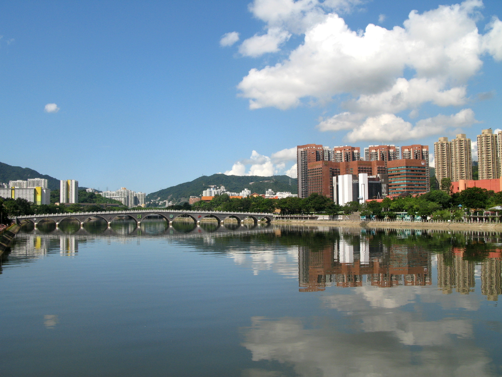 HK Shing Mun River